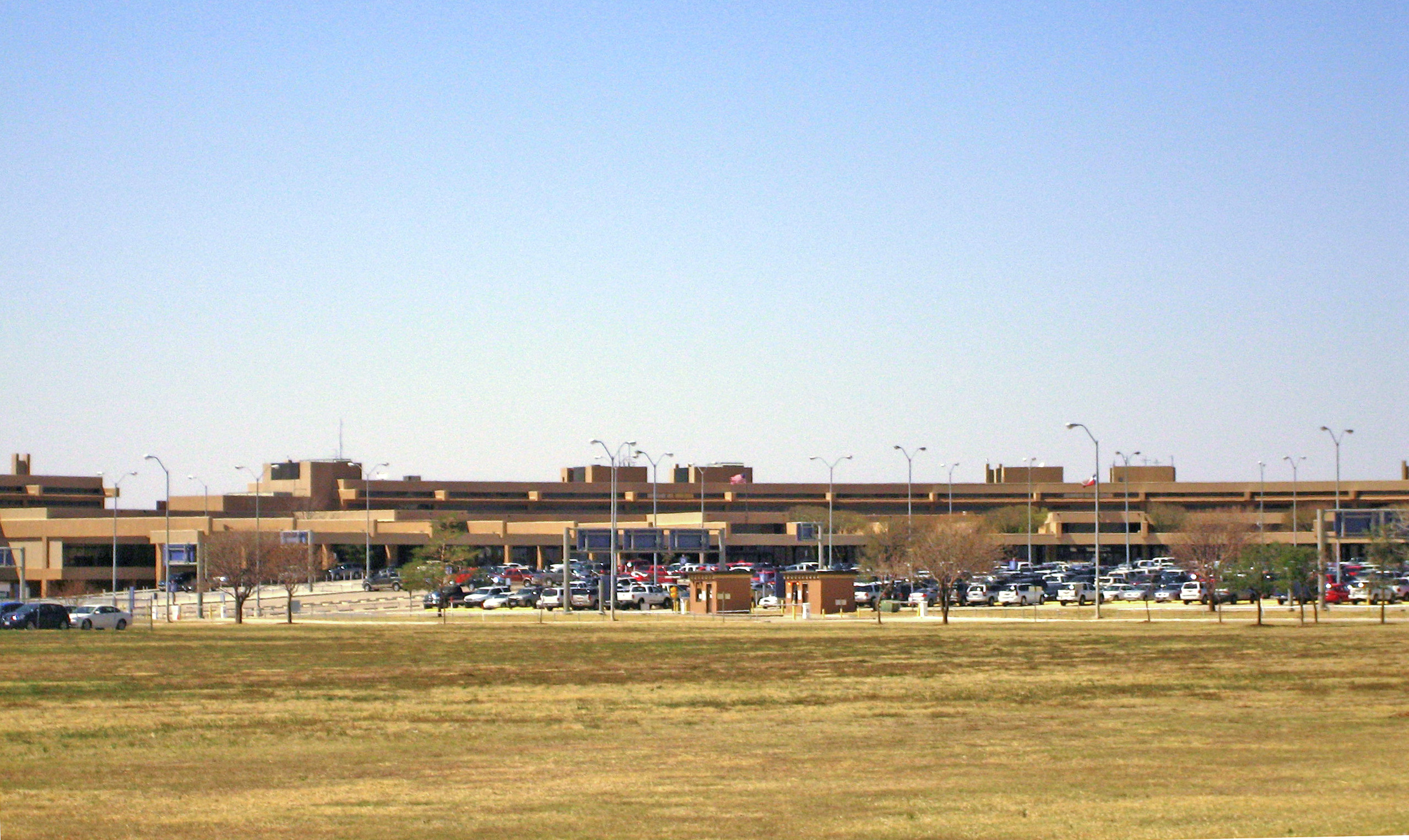 Lubbock Preston Smith International Airport on April 5, 2009.